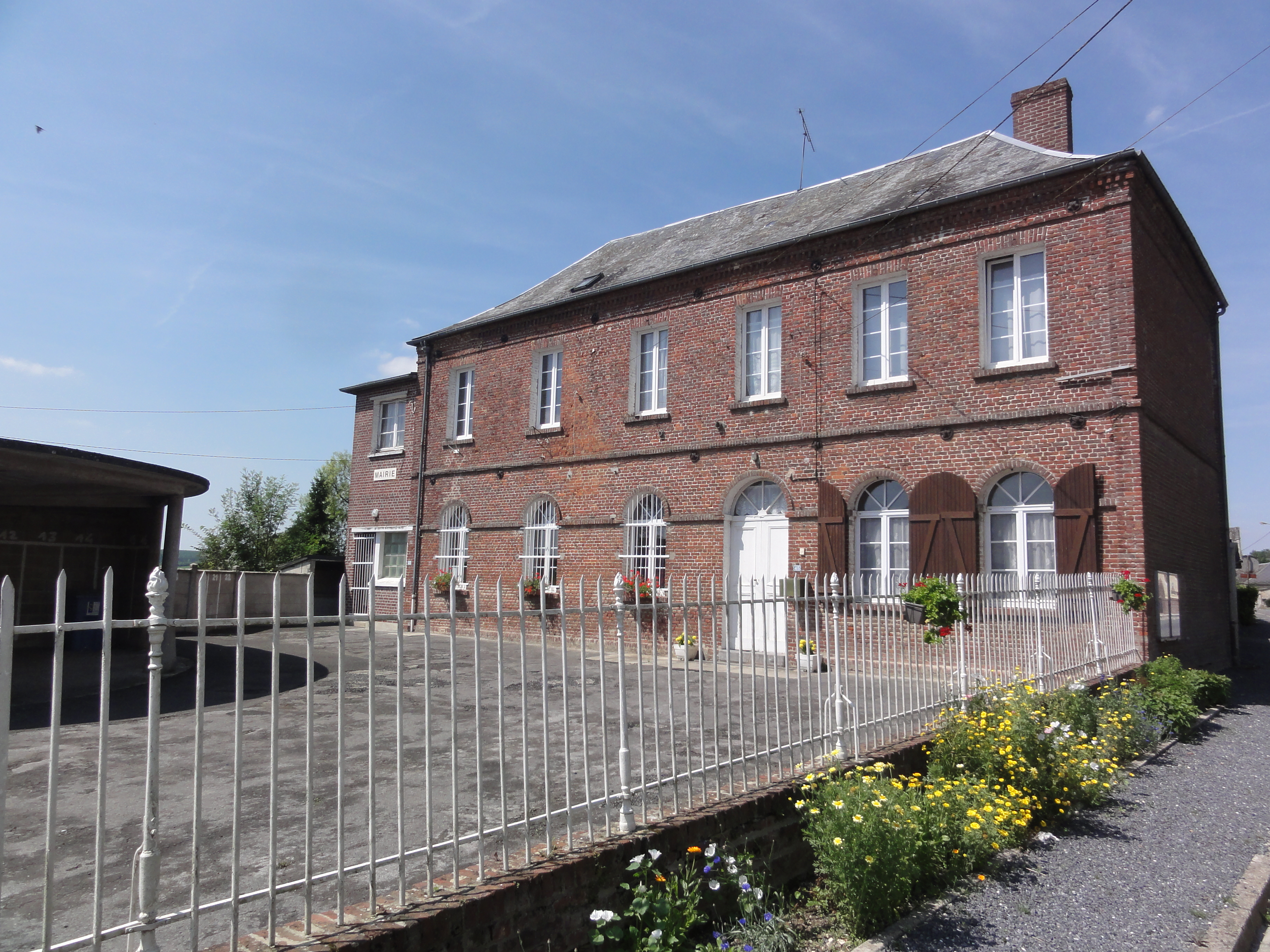 Landifay-et-Bertaignemont (Aisne) mairie